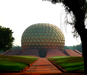 The Matrimandir is the physical and spiritual centre of the city of Auroville, Tamil Nadu, India.